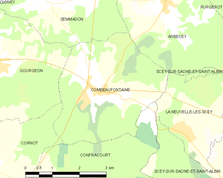 Map of French municipality